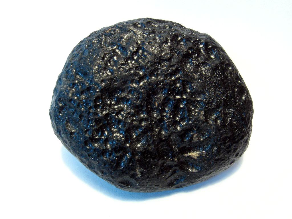 A typical Indochinite from Korath, Thailand. The specimen weights 69g and is about 53 mm wide.